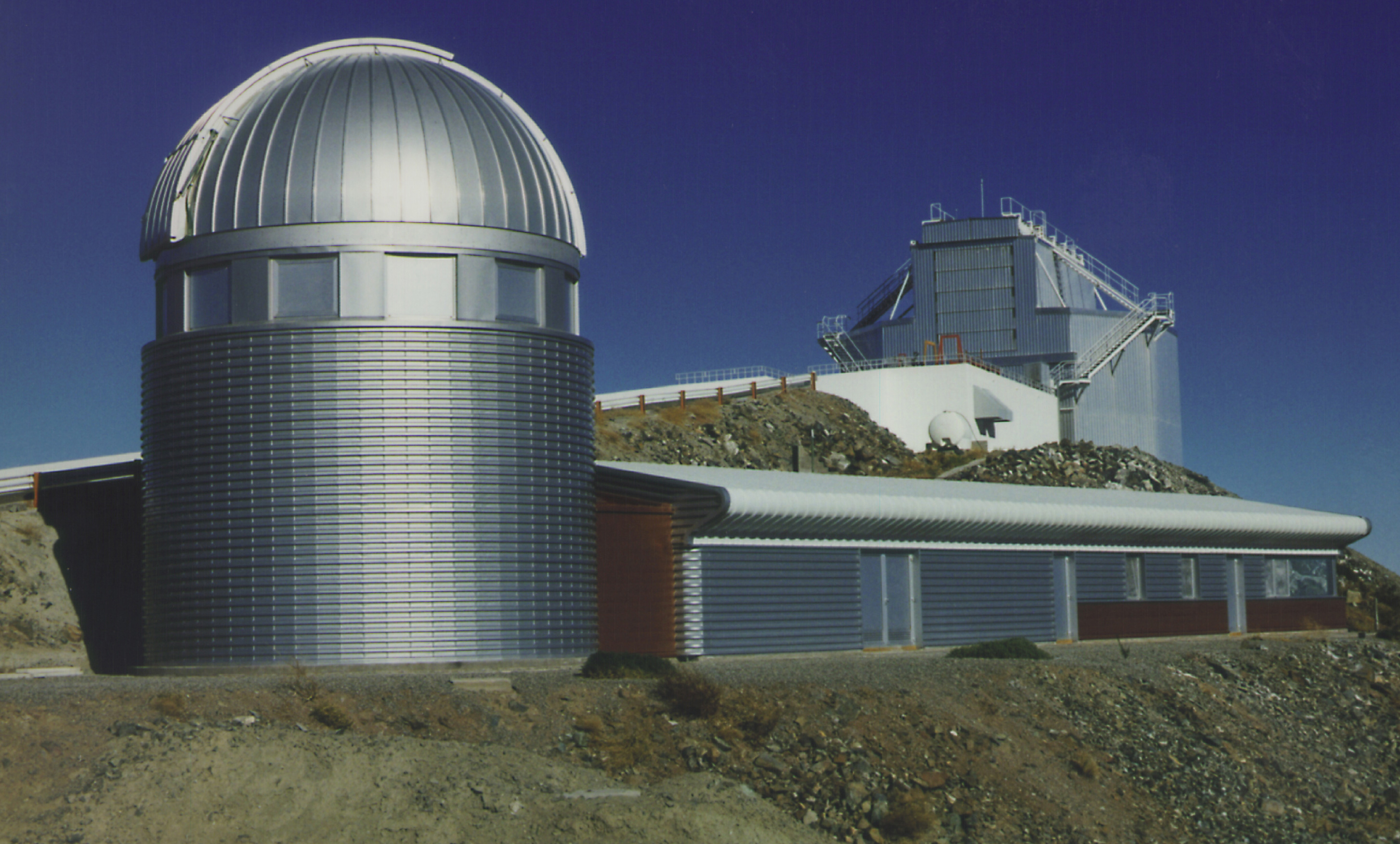 Dome of the Swiss Telescope at La Silla A view of the dome with the 1.2-m Swiss Leonard Euler Telescope at the ESO La Silla Observatory. Credit: ESO